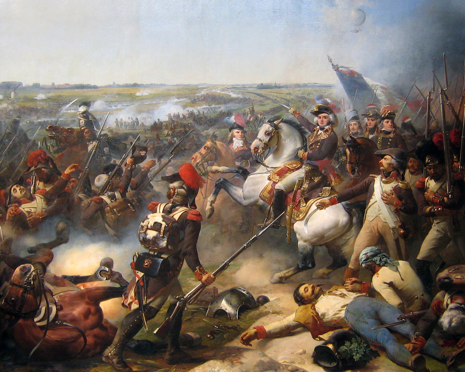 Battle of Fleurus, June 26. 1794, French troops led by Jourdan beat back the Austrian army